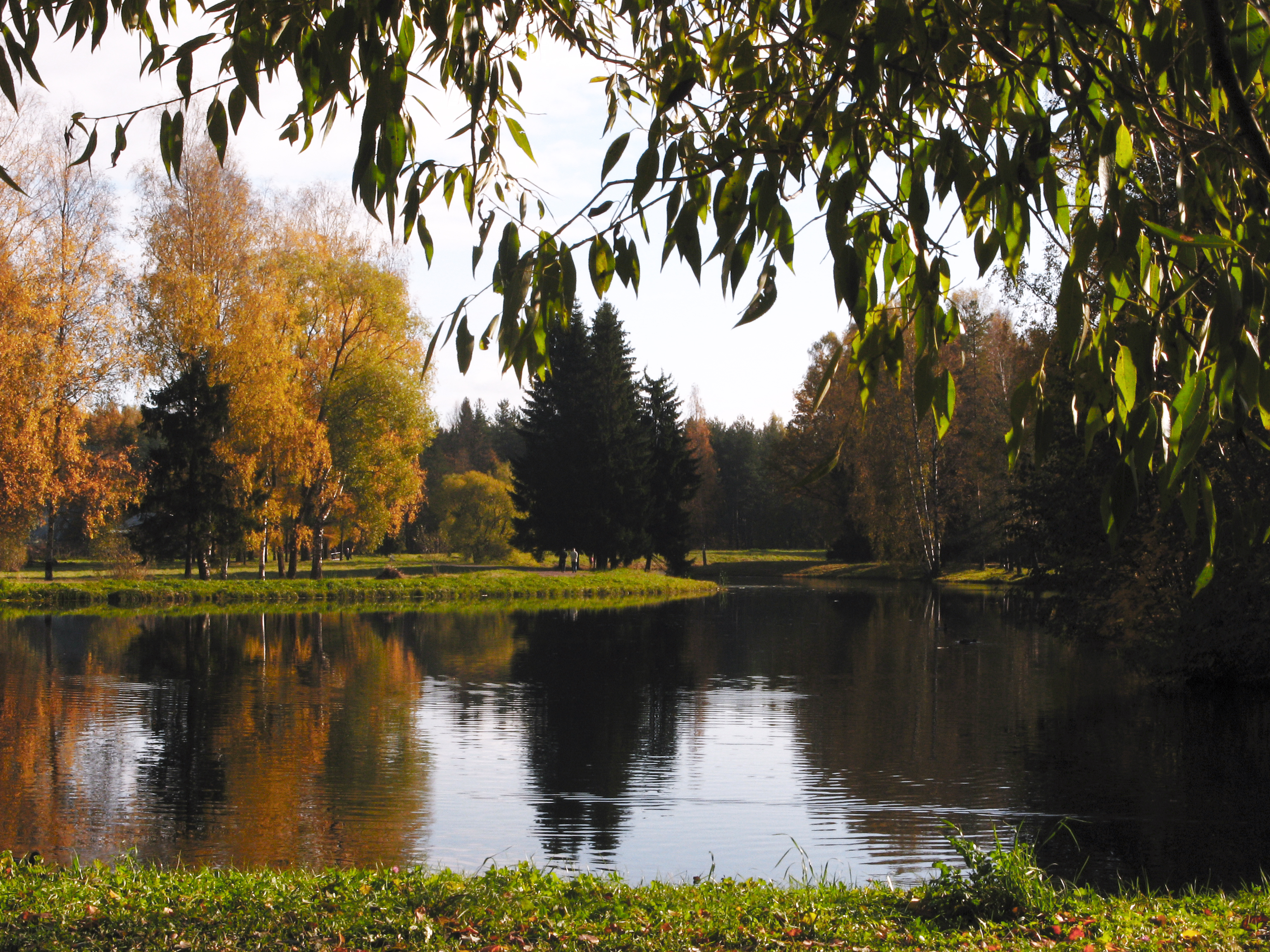 Yellow birches and view at river Slavyanka, autumn at Pavlovsk park.